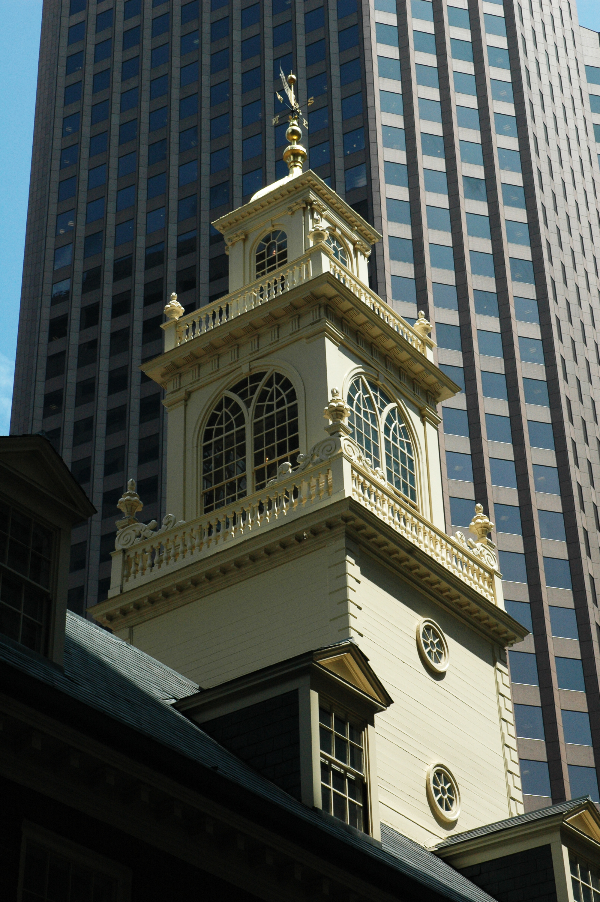 Old State House, Boston